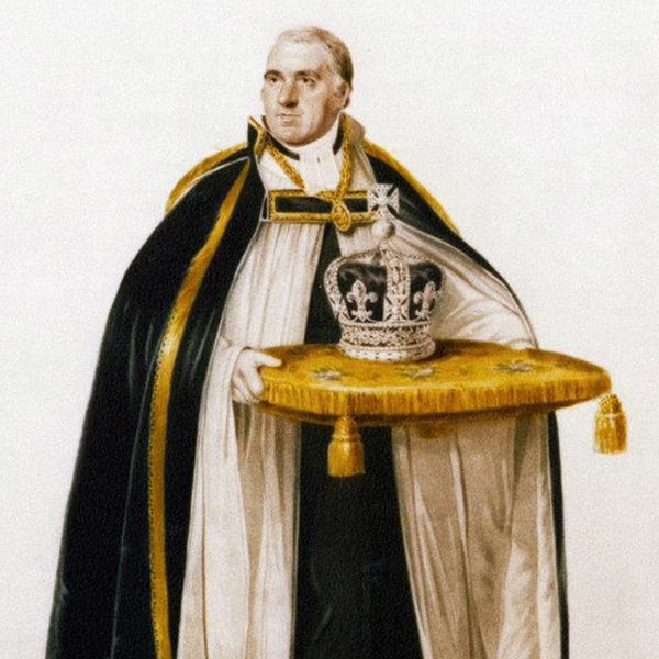 'The Dean of Westminster bringing the Crown from the Altar'